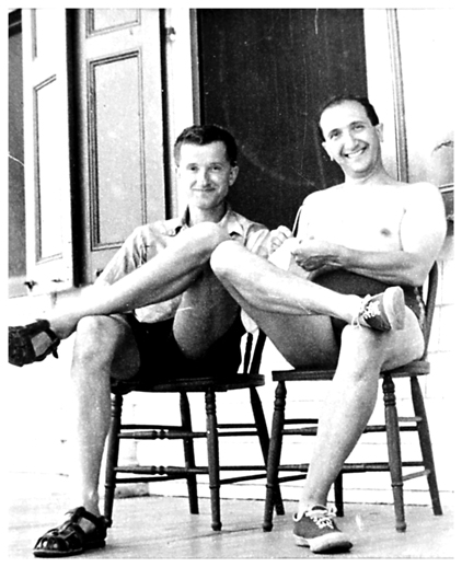 Max Delbruck and Salvador Luria at Cold Spring Harbor Laboratory. Photographic Print.